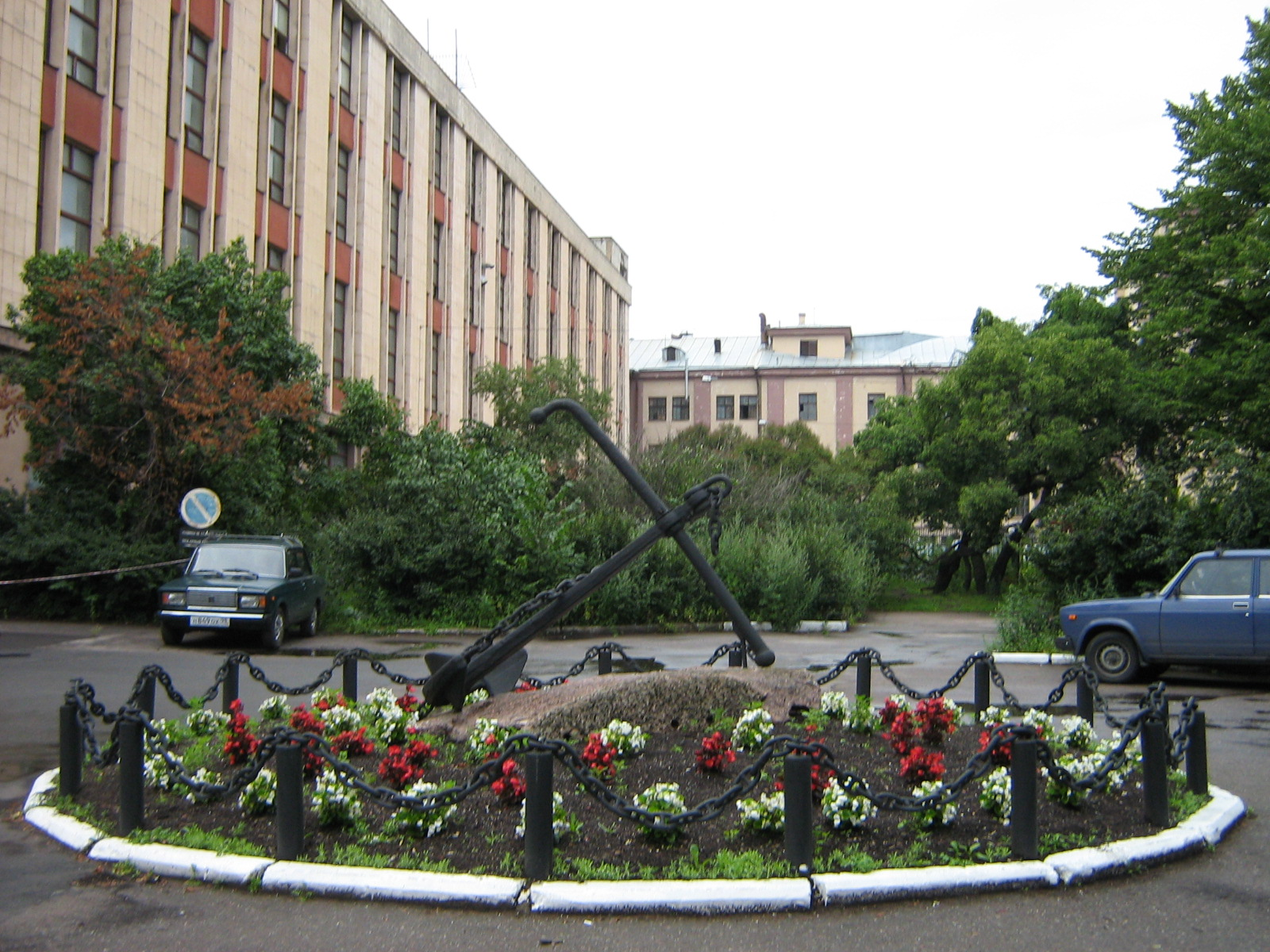 Square with an anchor at front of the Okeanpribor building (46, Chkalovsky Prospekt, Saint-Petersburg, Russia)